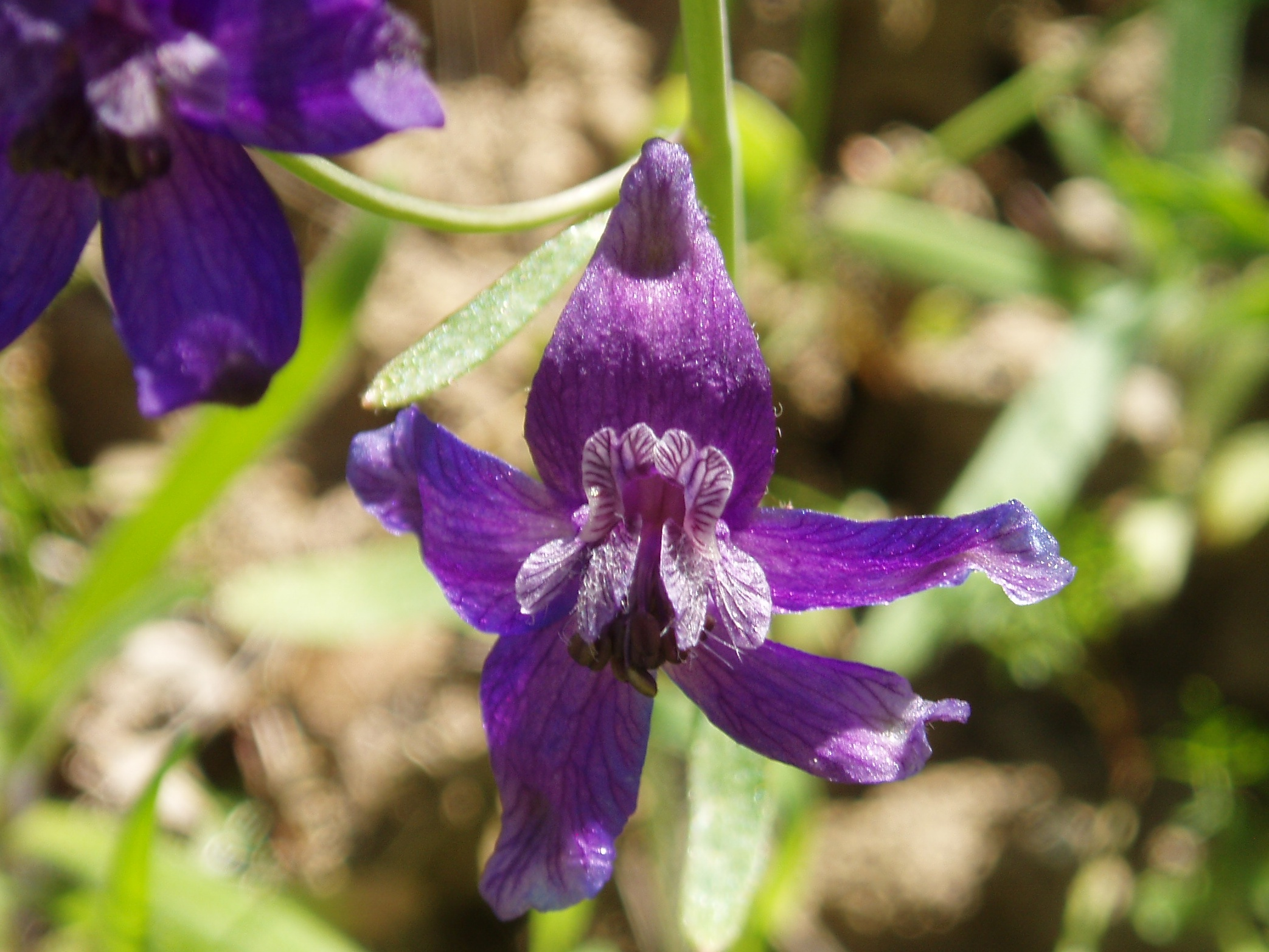 Delphinium variegatum, Morgan Territory, Contra Costa County, CA